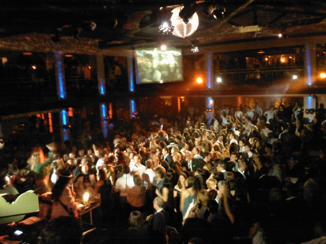 Capannina di Franceschi